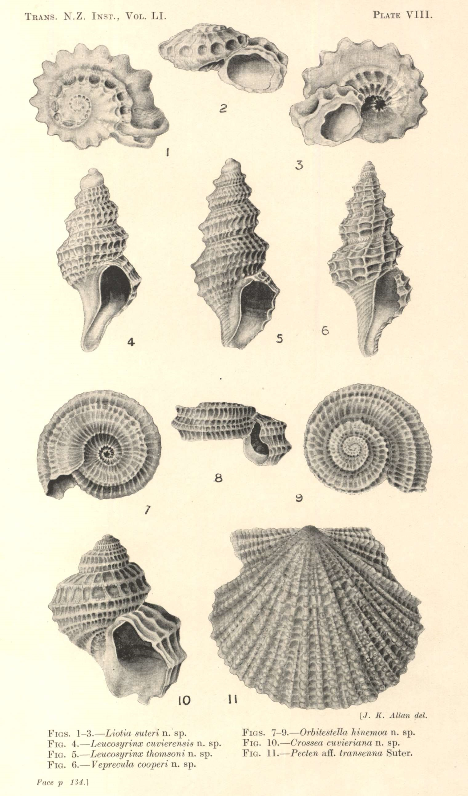 Images of some new Species of Mollusca, from various dredgings taken off the coast of New Zealand, the Snares Islands, and the Bounty Islands, around 1918. The species are described in the article mentioned under "source".